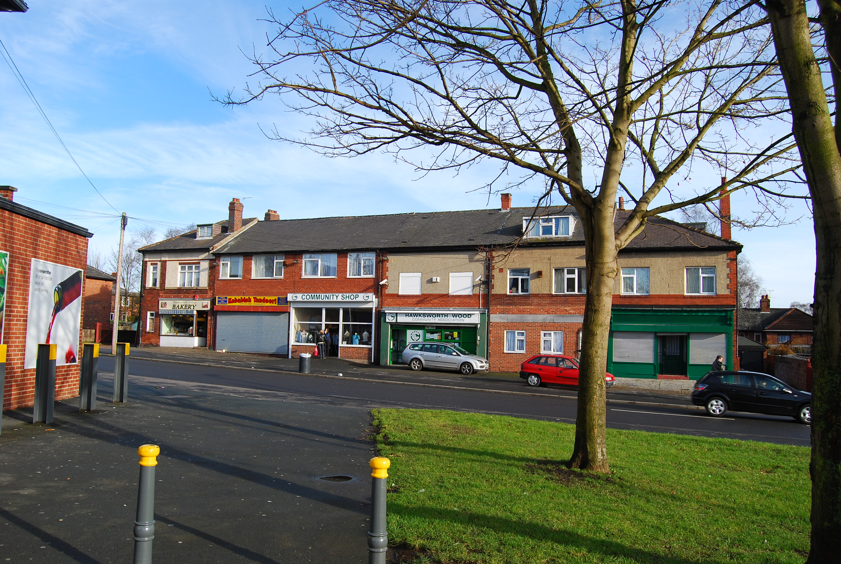 Parade of shops on Broadway